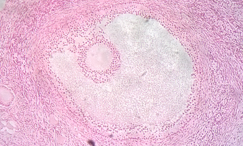 Ovarian follicle. H&E stain.